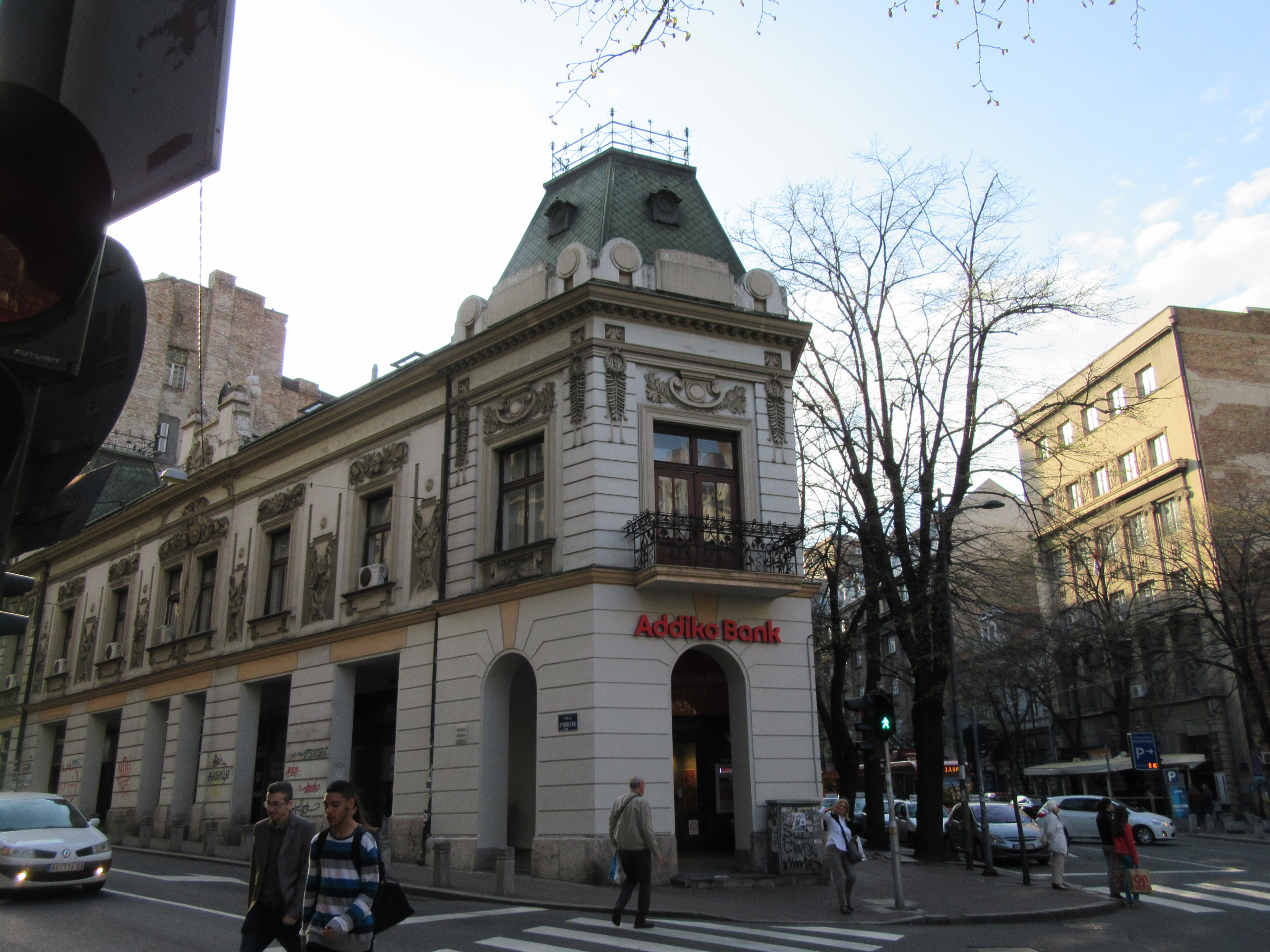 House of Jovan Smederevac, Makedonska street, Belgrade, Serbia, 2019. Srpski (latinica): Kuća Jovana Smederevca, Makedonska ulica, Beograd, Srbija, 2019.